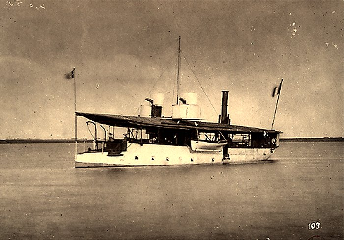 Photograph of the French gunboat Yatagan in Tonkin, 1884